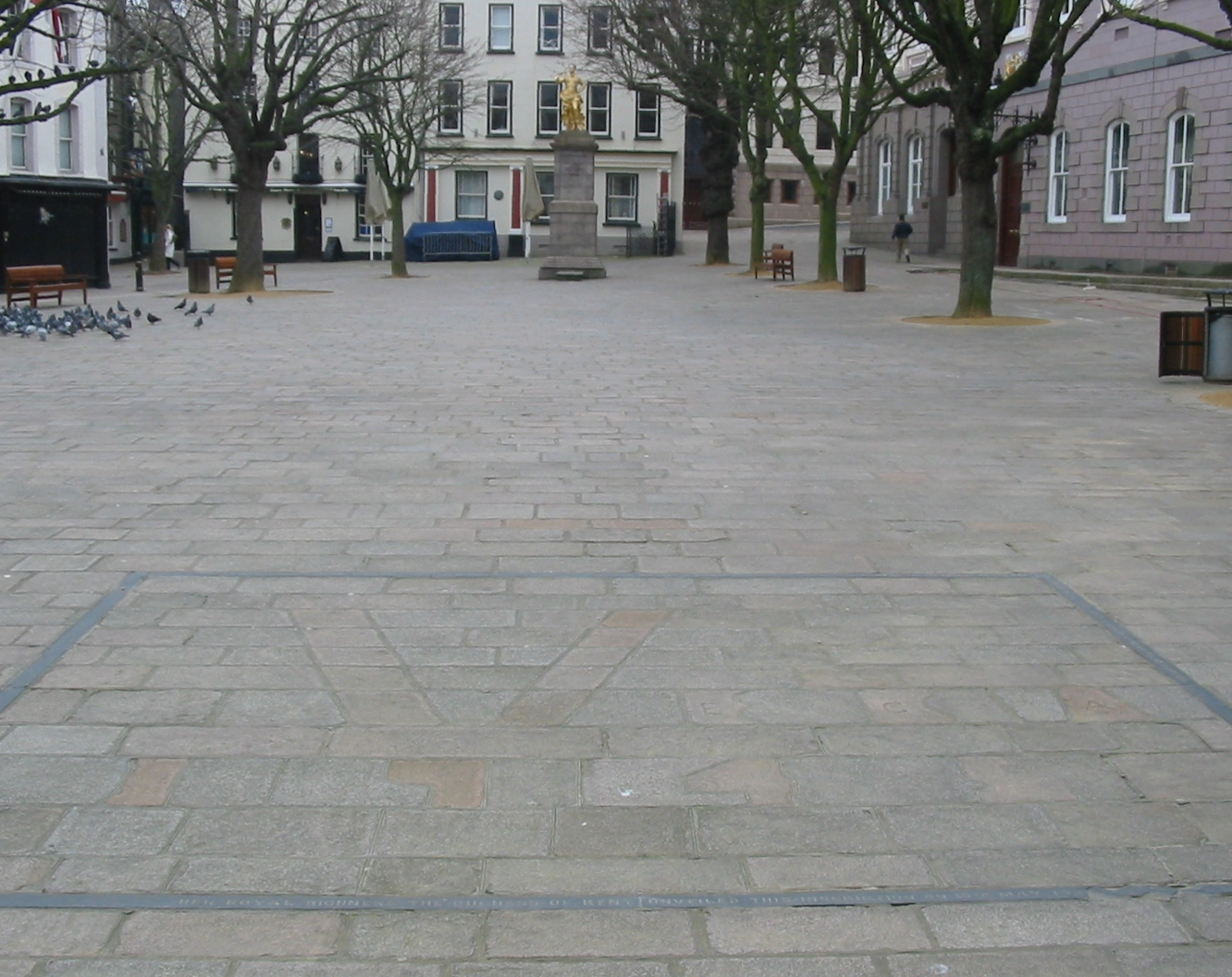 V for Victory laid into paving during German occupation of Jersey during WWII, later amended to refer to Red Cross ship SS Vega, and subsequently restored as monument.